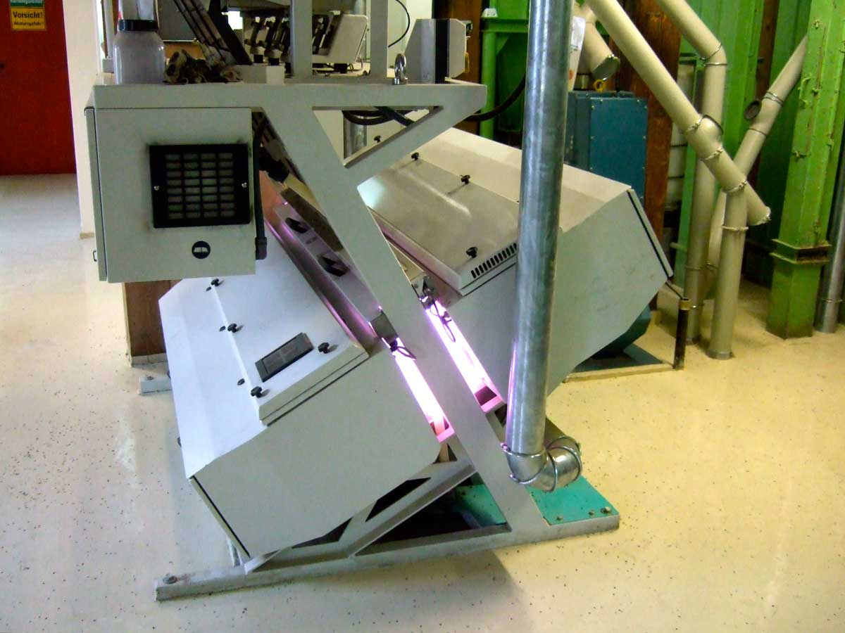 Optical sorting system for Beans, Nuts, Grains, Seeds, Tea, Coffee